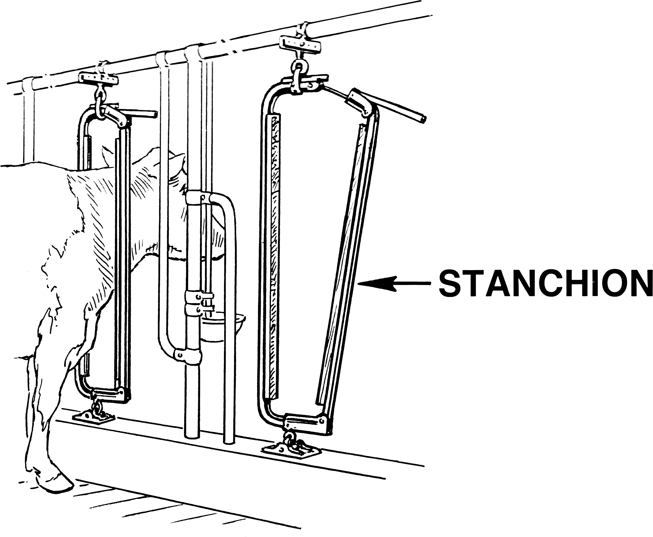 Line art representation of a Stanchion